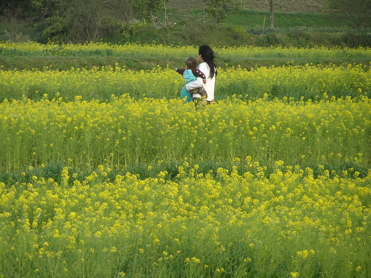 Rape blossomsP4268885 菜の花畑.